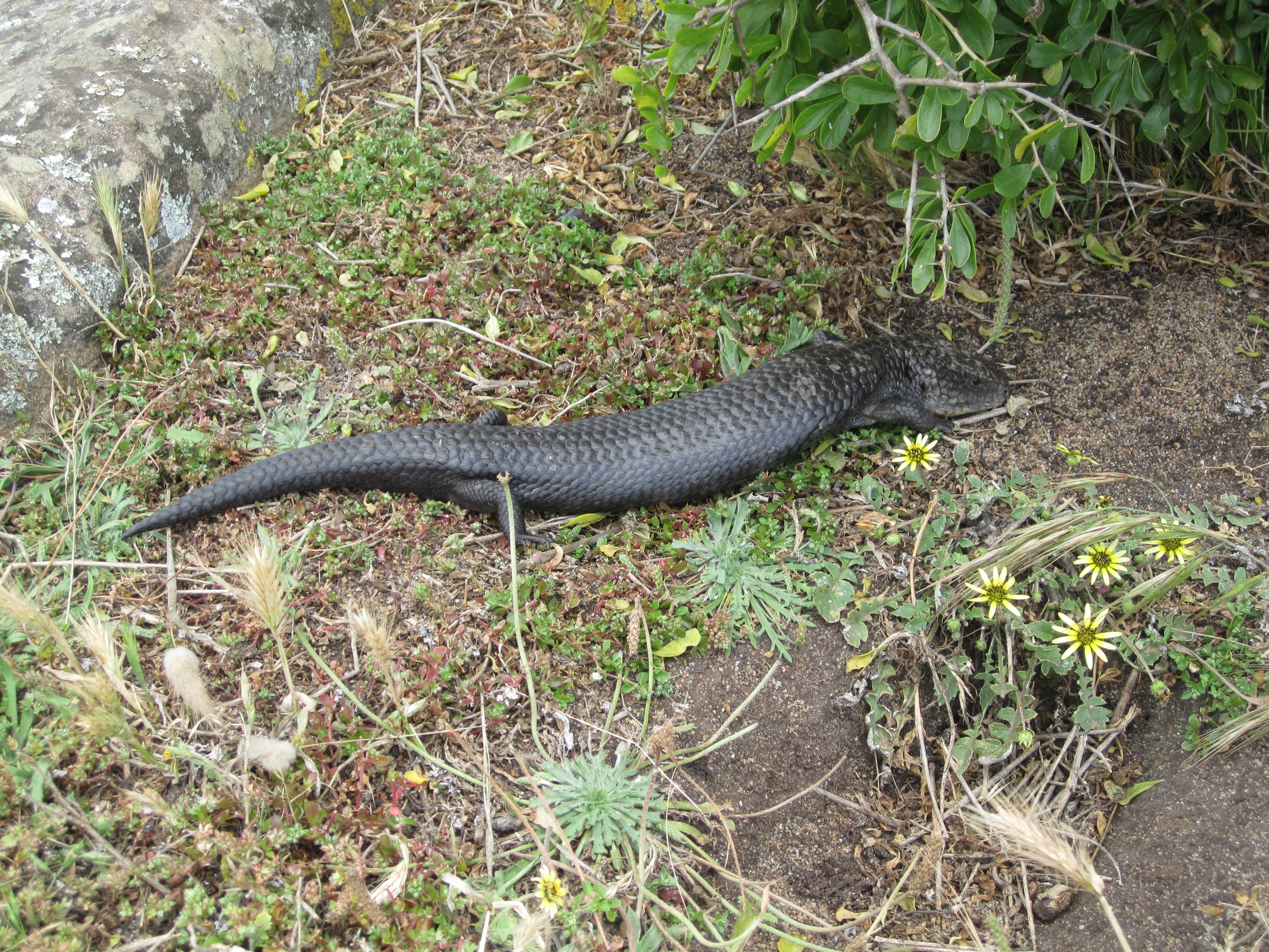 A melanistic morph of the blotched blue-tongued lizard (Tiliqua nigrolutea). Low Head Coastal Reserve, Low Head, Tasmania.